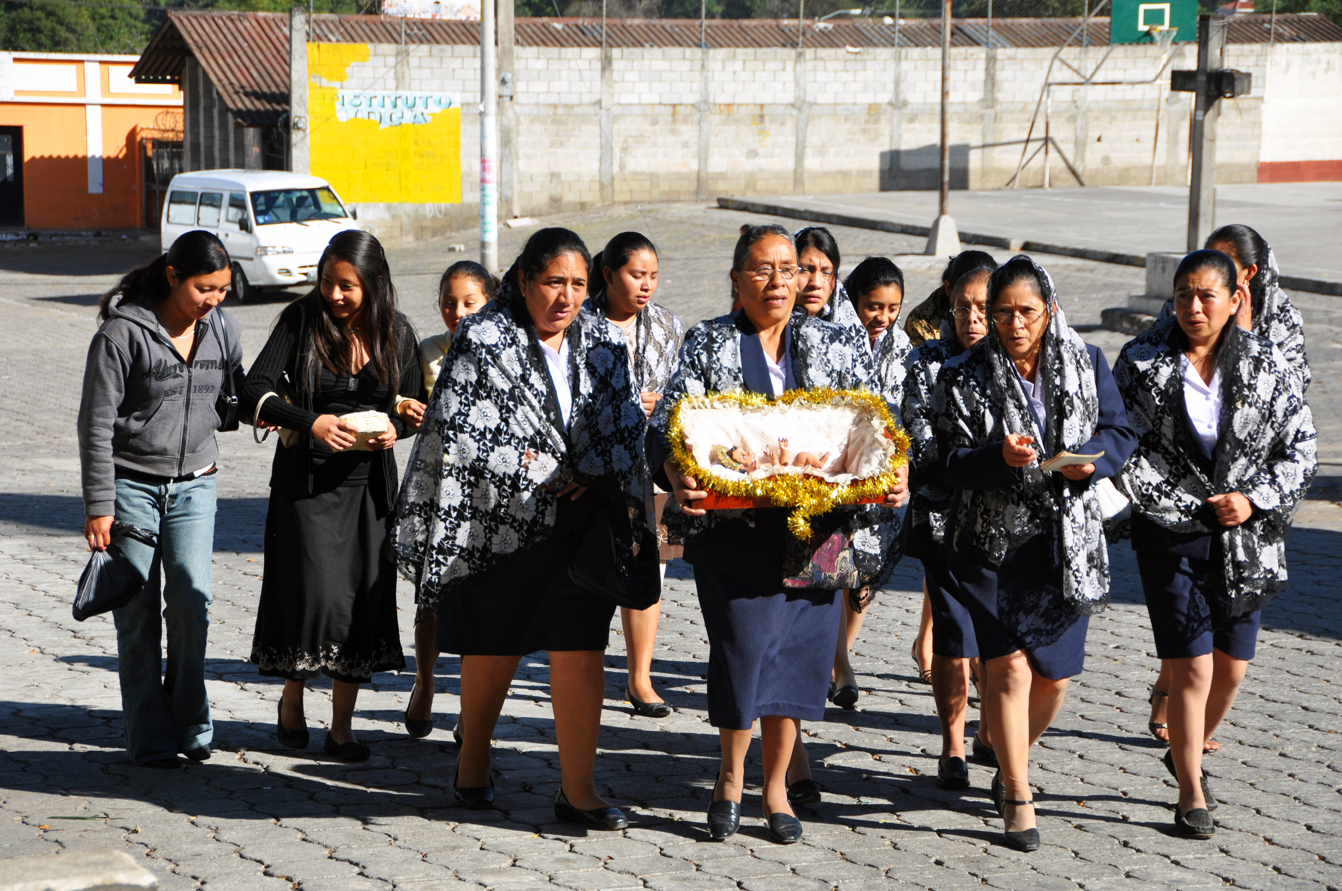 women in Antigua Guatemala Christmas 2009